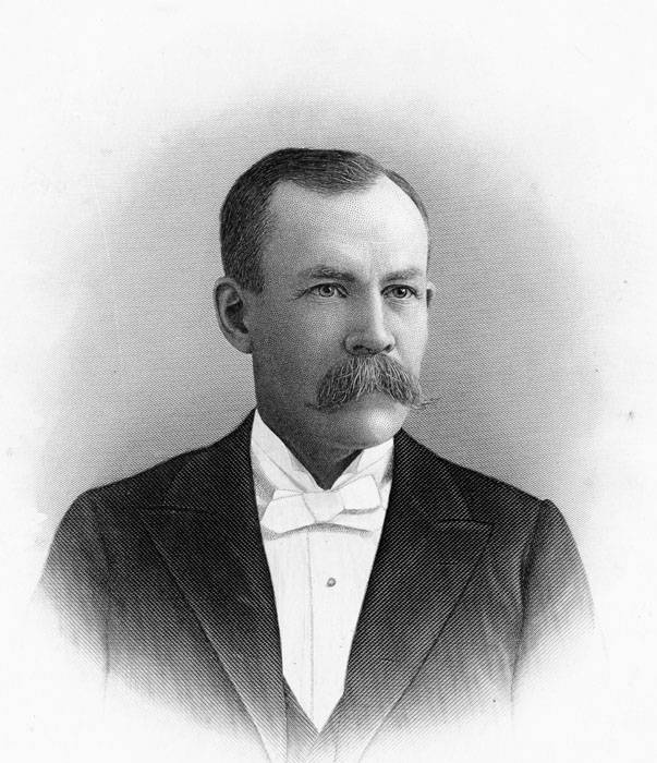 Photo of Joseph Lafayette Rawlins, delegate to the United States House of Representatives from the Territory of Utah and a United States Senator from Utah.